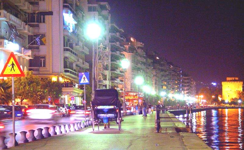 Nigh shot of Thessalonikis Nikis Avenue.